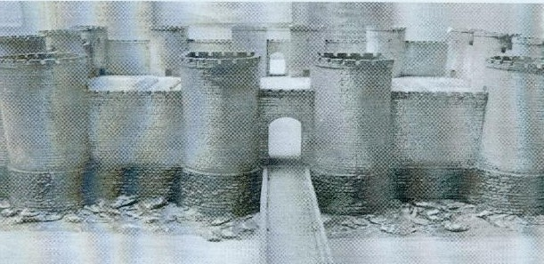 Eastgate, Castle Divitia/Köln-Deutz, Germany, Modell in Museo della Civita Romana.